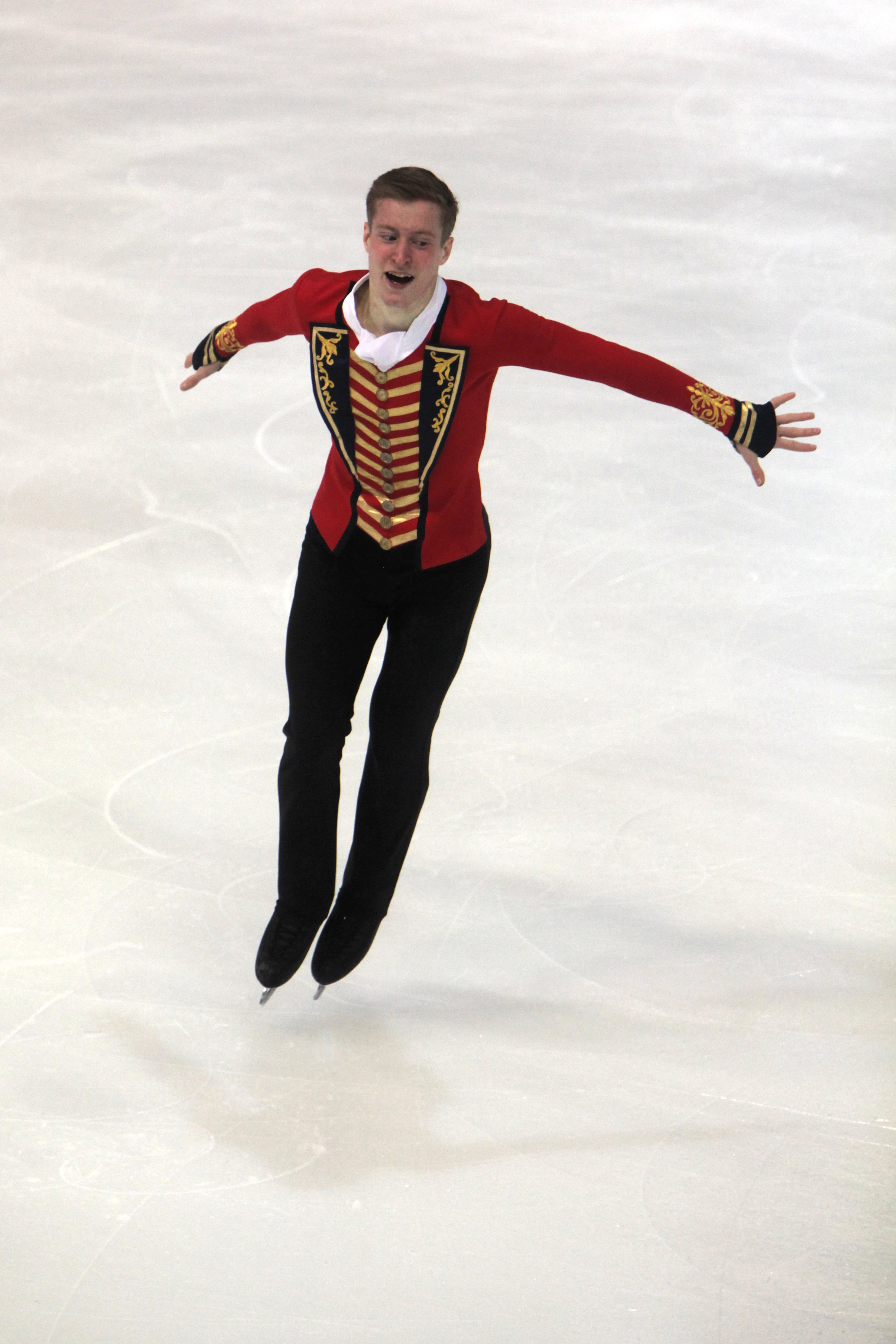 Alexander Samarin during the men's singles free skating at the Internationaux de France de Patinage 2018.